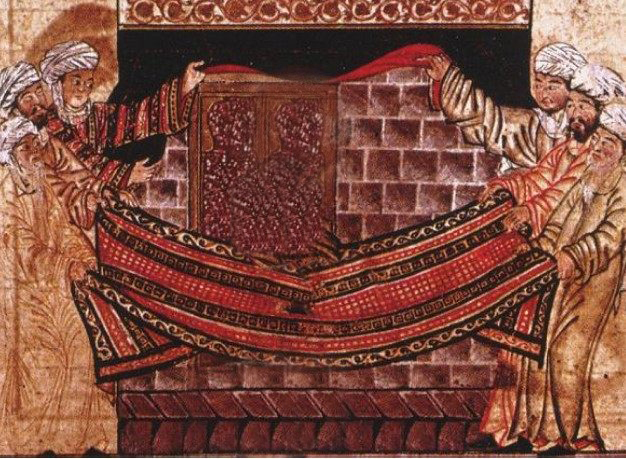 A 1315 illustration from the Persian Jami al-Tawarikh, inspired by the story of Muhammad and the Meccan clan elders lifting the Black Stone into place when the Kaaba was rebuilt in the early 600s. This version has the entire figure of the Prophet edited out in accordance to strict interpretations of the prohibition against idolatry.